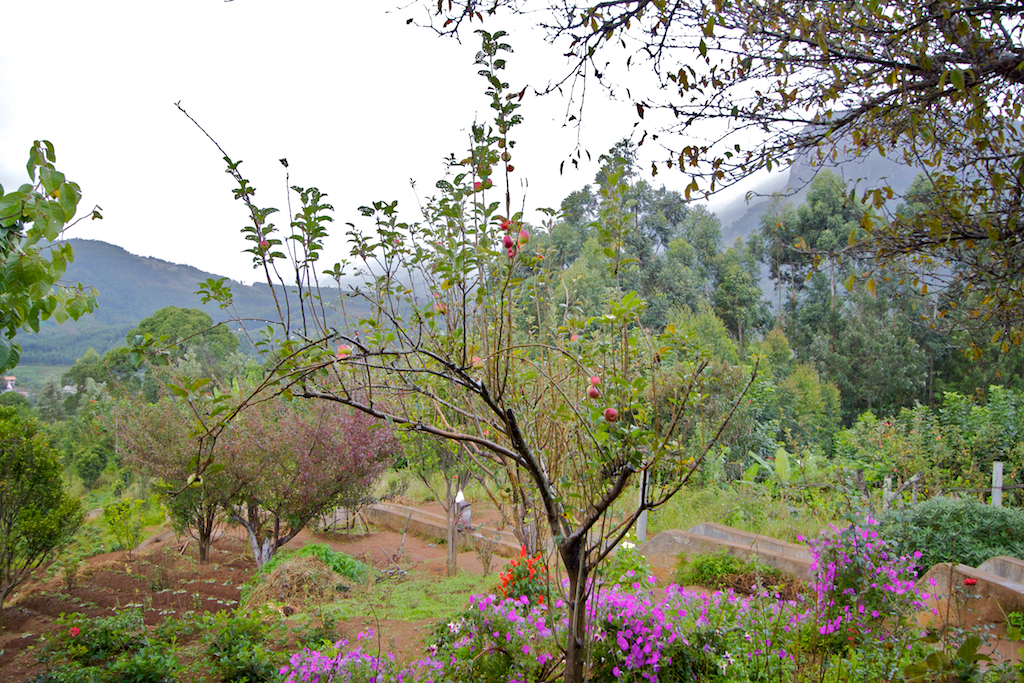 Apple farm in Kanthalloor (A rain shadow village on the Kerala border)